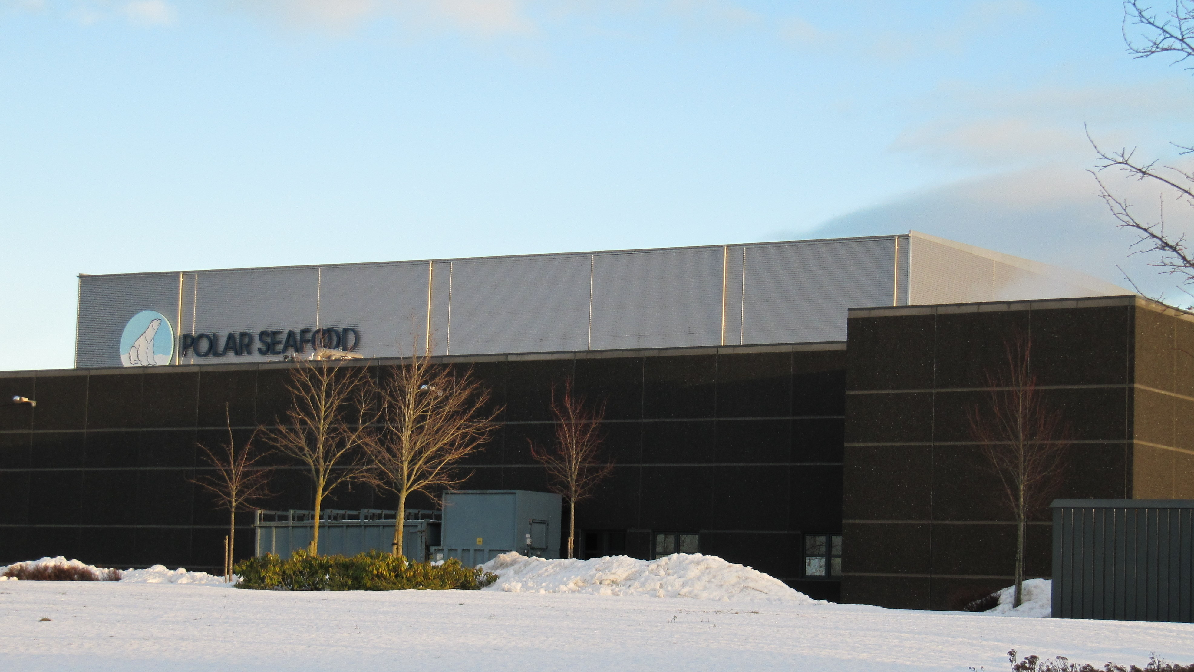 Polar Seafood at Vester Hassing